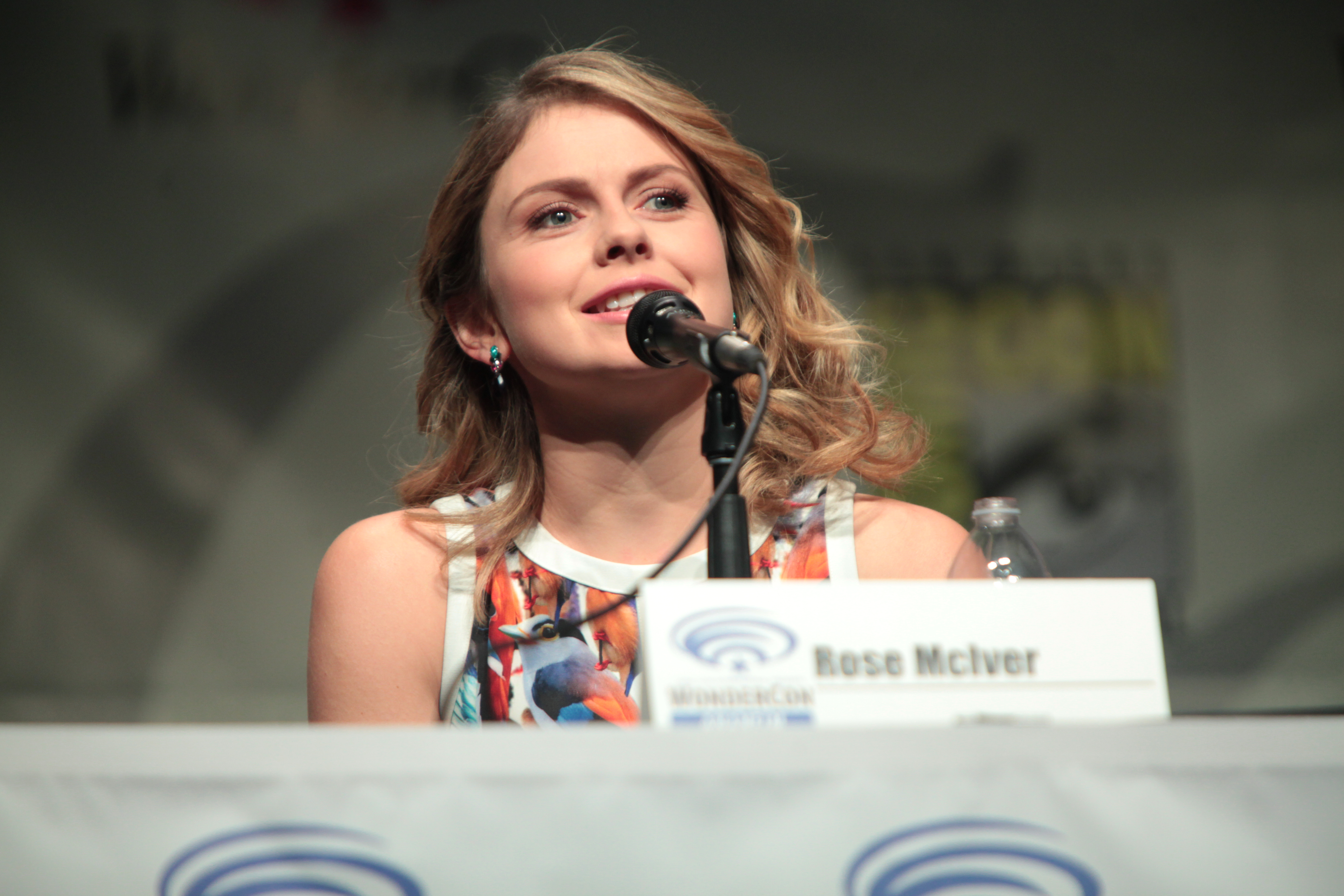 Rose McIver speaking at the 2015 Wondercon, for "iZombie", at the Anaheim Convention Center in Anaheim, California.